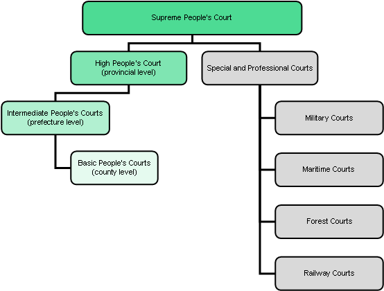 Court system diagram, created by Yu Ninjie. Captioned As {}